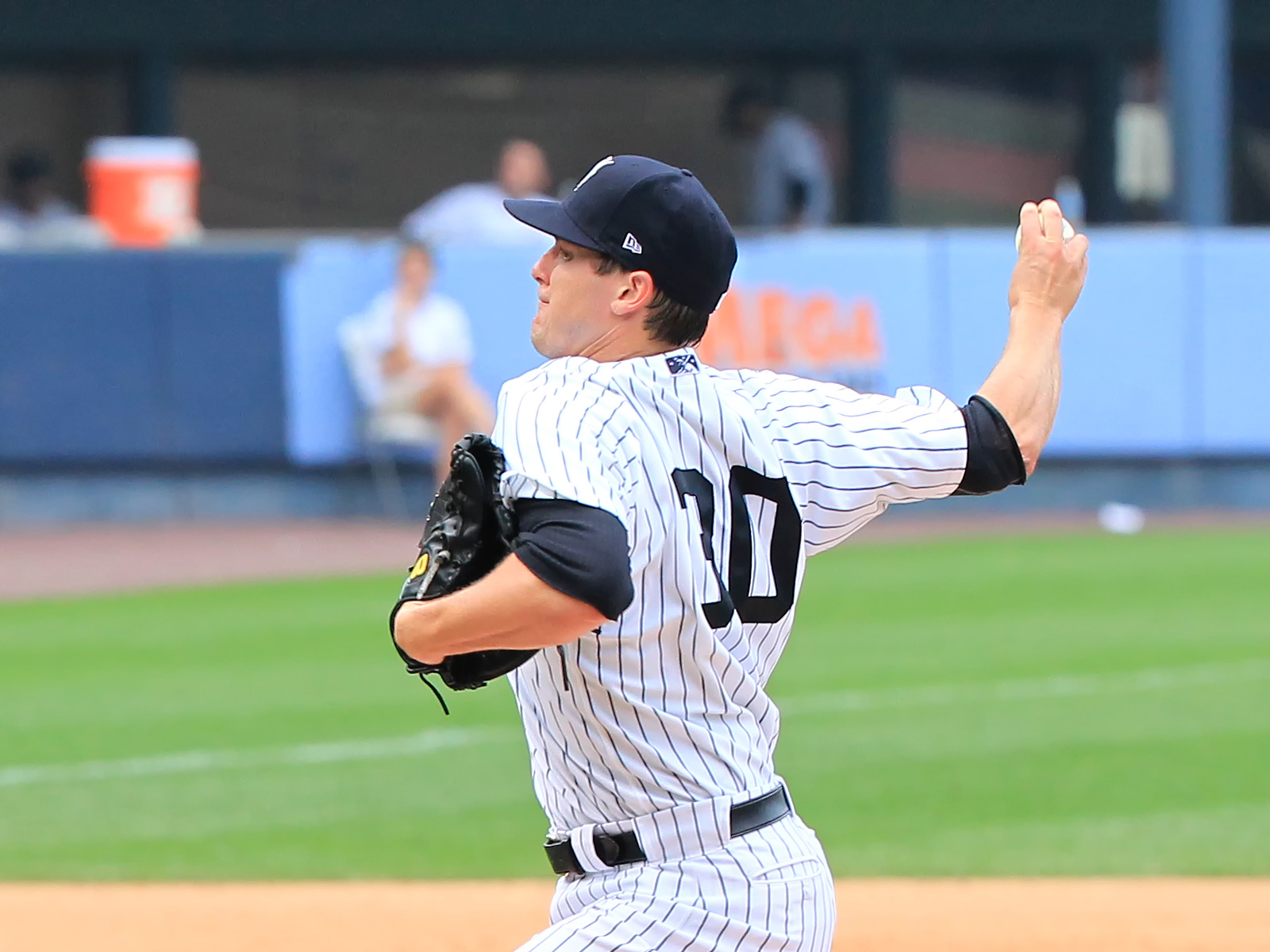 Lance Pendleton, pitching for the Scranton/Wilkes-Barre Yankees, August 2011.